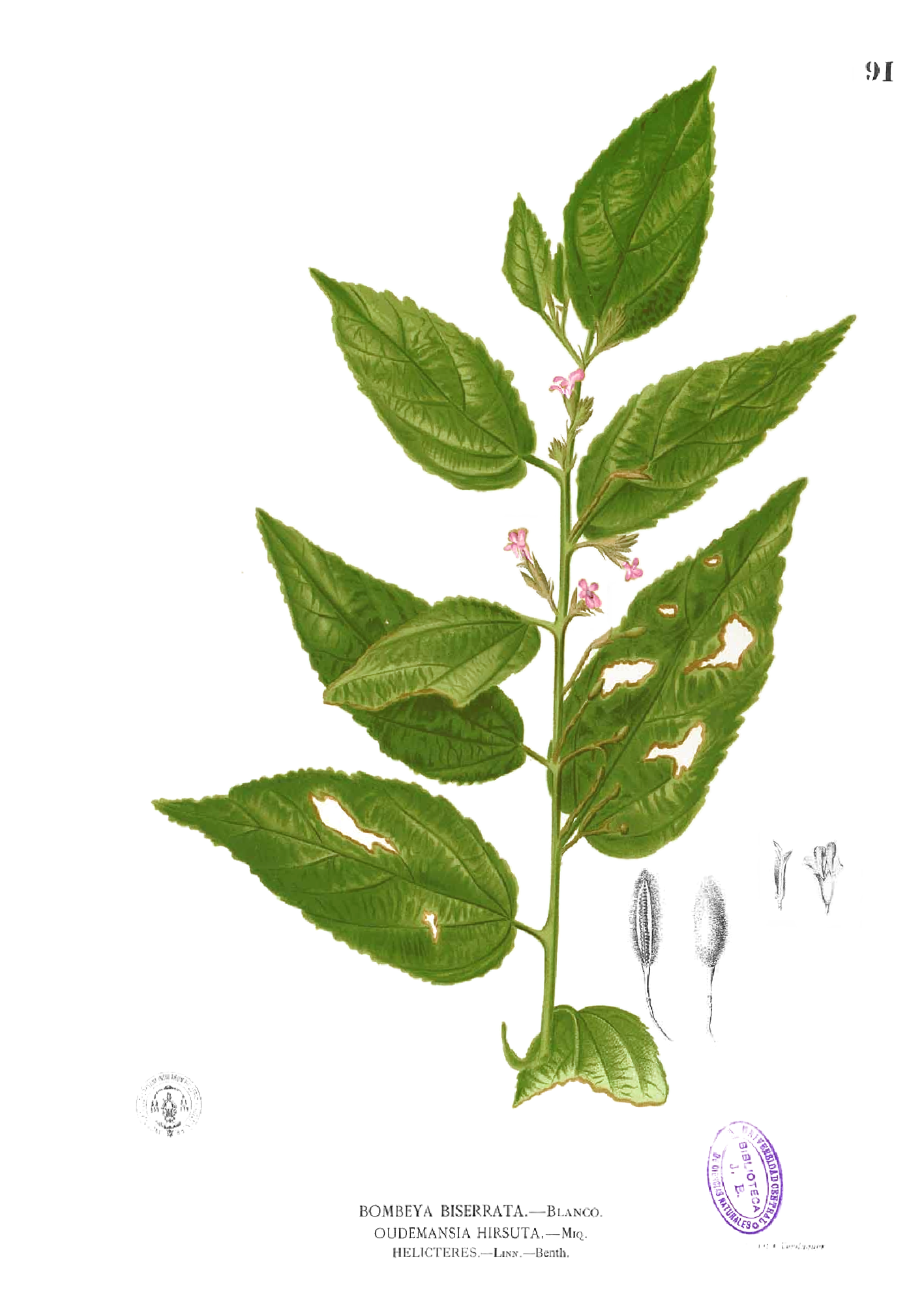 Plate from book